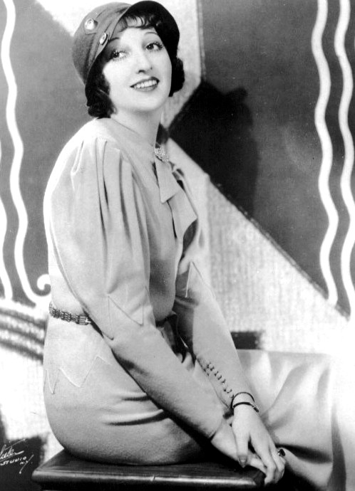 Publicity photo of Mary Livingstone, the wife of Jack Benny. This was taken when she and Benny were working in vaudeville. She was still known as Sadie then, not becoming Mary Livingstone until 1932, when it was the name of a character she played on her husband's radio program.